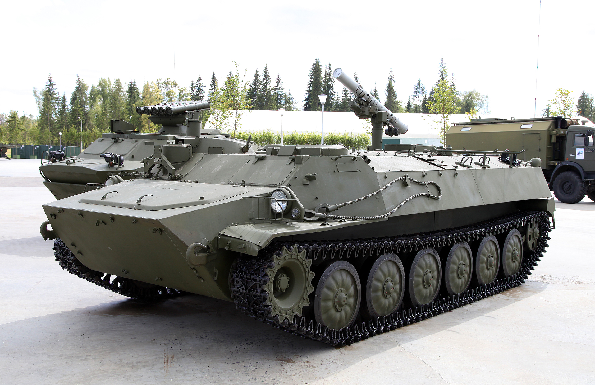 9P149 launching vehicle of 9K114 Shturm-S ATGM system